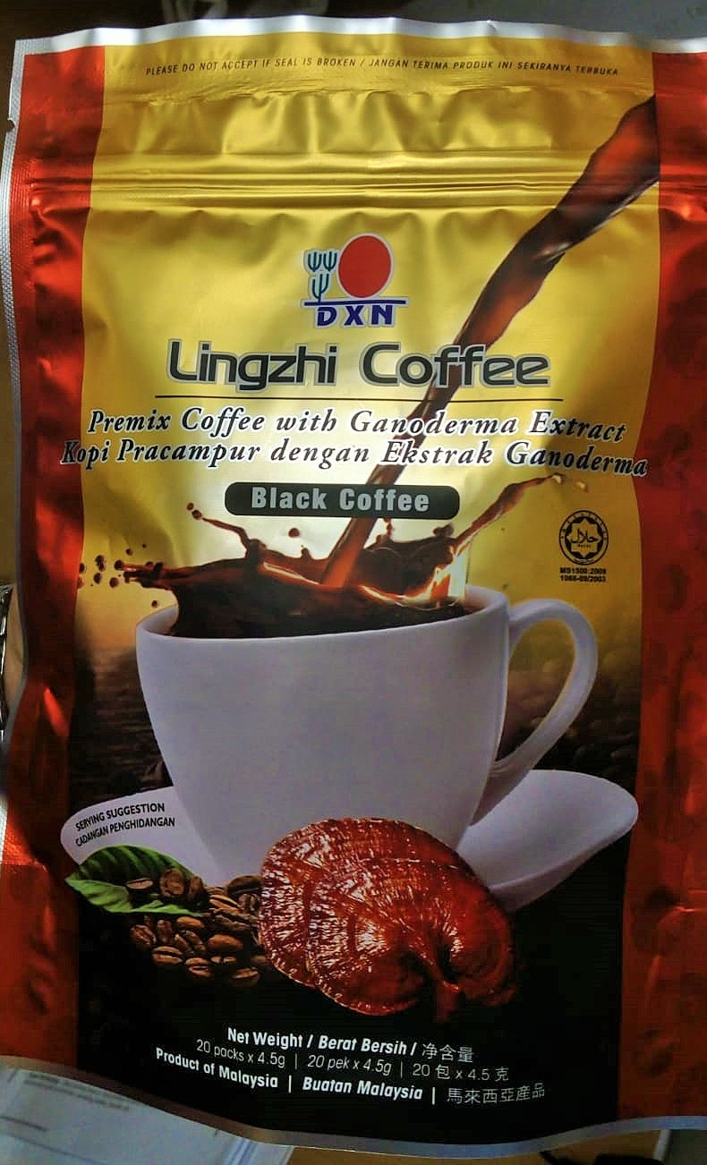 Bag of coffee with Lingzhi Extract